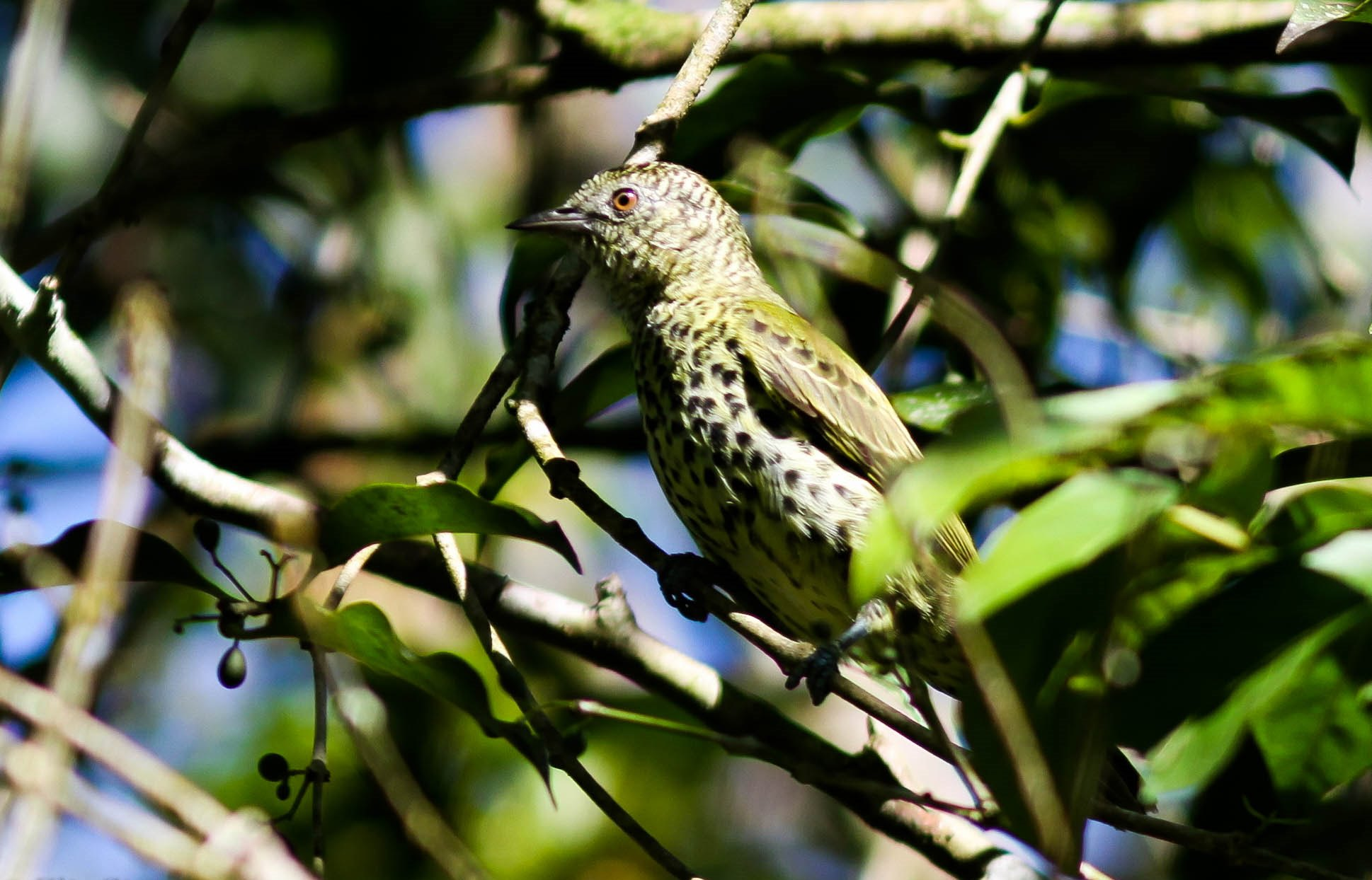 Sharpbill